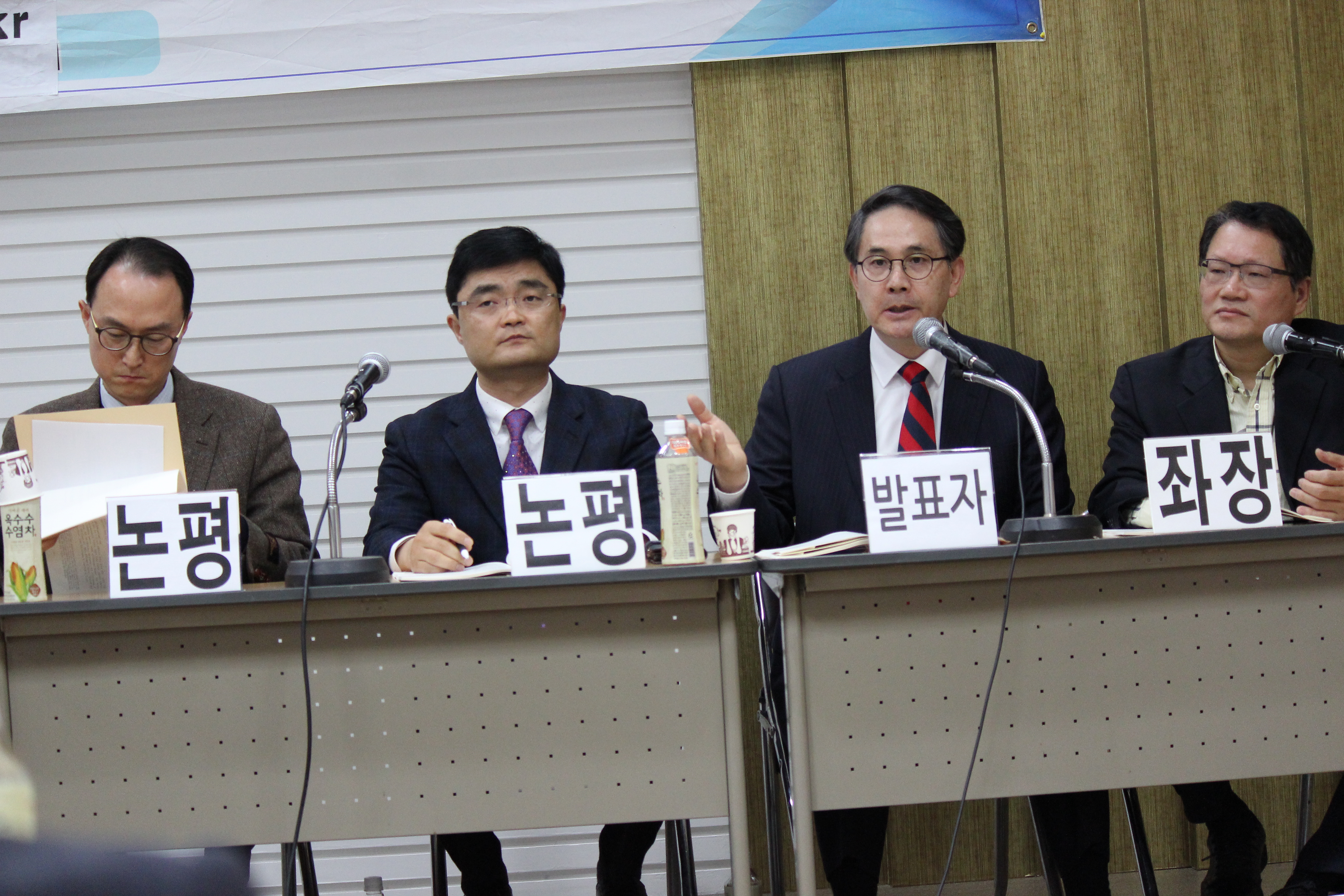 Dr. SeungHo Kim presenting in Korea Reformed Theological Society, Shinbanpo Church, 9th December, 2017